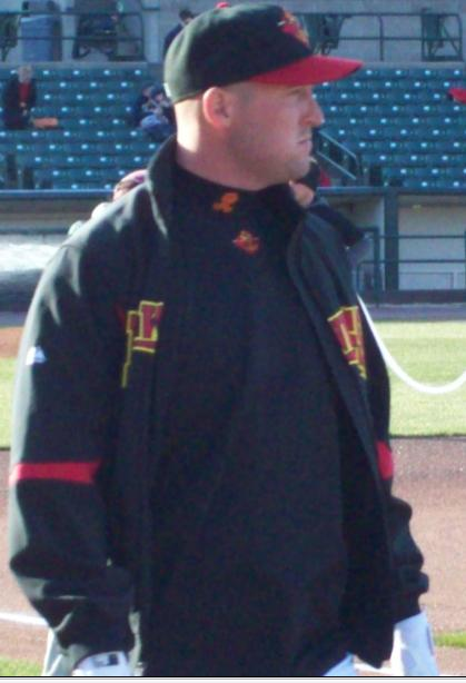 Bob Keppel 4/14/09 18:42, 15 April 2009 . . Phil5329 . . 419×614 (30 KB)